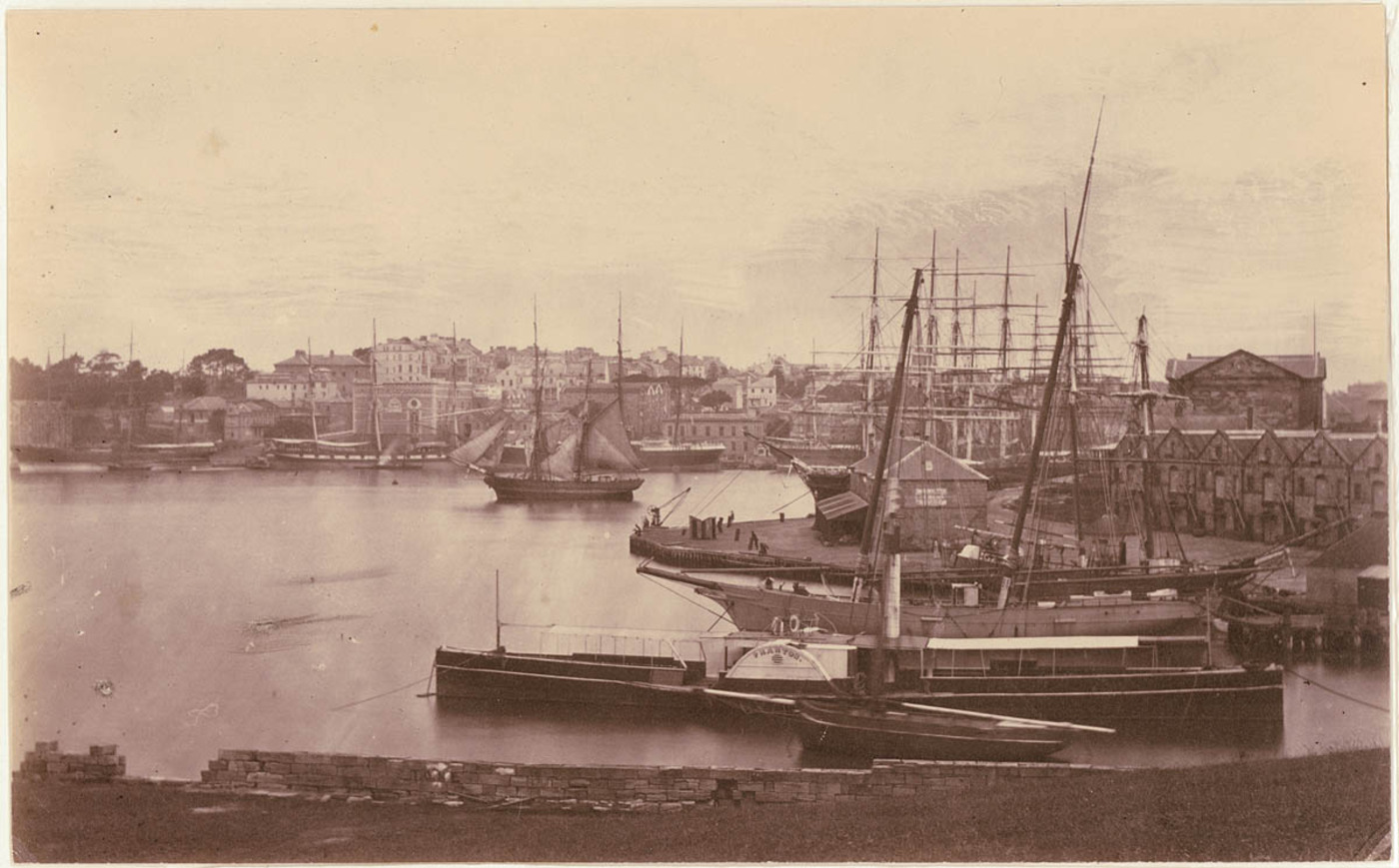 Sydney Paddle Steamer "Phantom" (1858-1886) at Dawes Point. In this fine image can be seen the PHANTOM in the area now known as Campbells Cove. Campbells warehouse at far right still exist. At rear, centre, is the Customs House before additions were made. At least three ocean-going sailing ships are alongside the stone quay while a smaller ship is hoping for wind as she drifts in the Cove. PHANTOM was the first double-ended steamer on the Manly run.